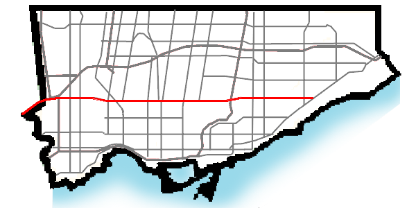 map of Eglinton Avenue